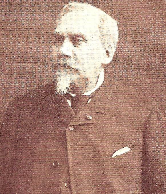 baron de Maere van Aertrijcke